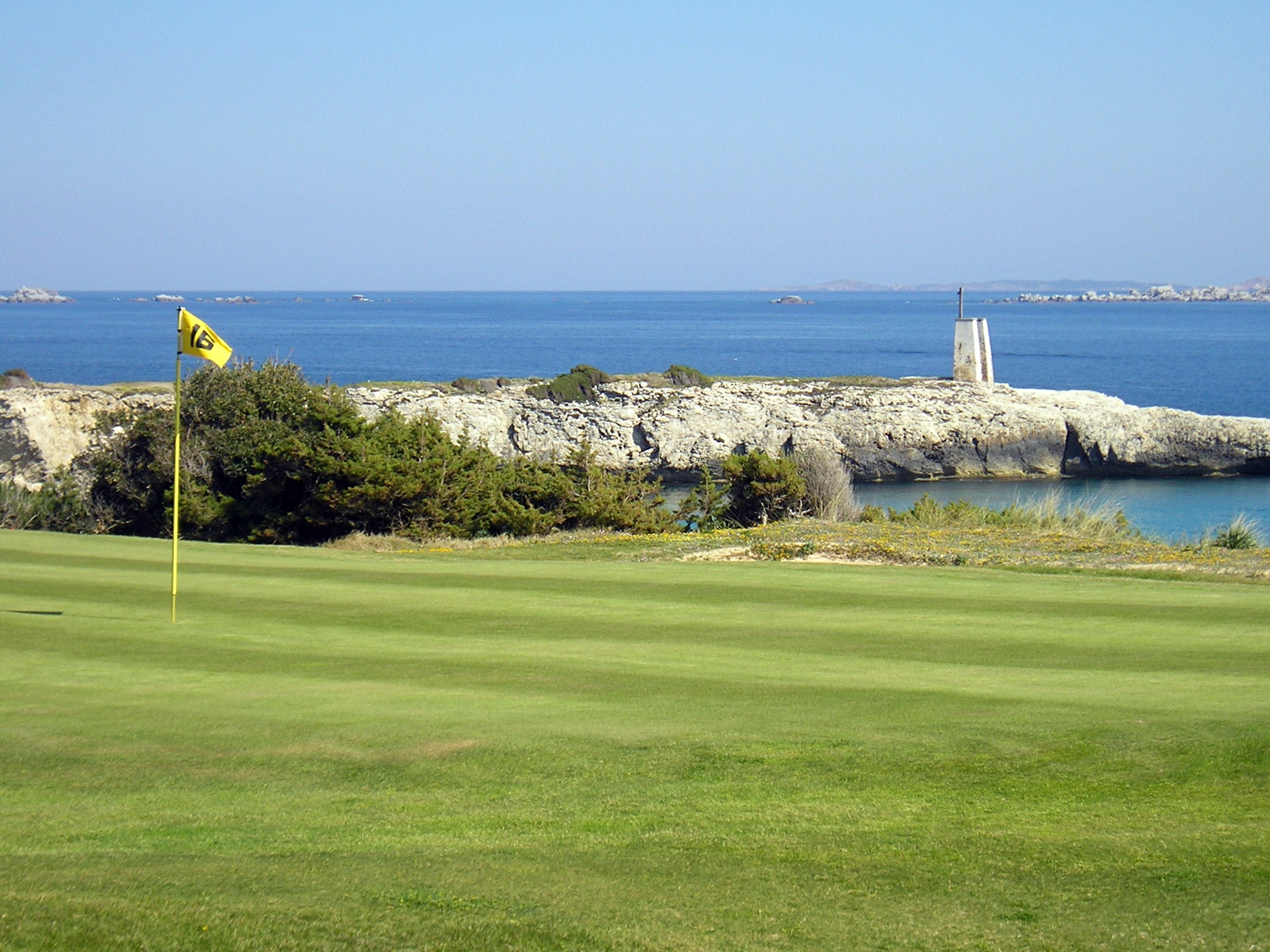 The 16th hole of the Sperone golf course (near Bonifacio, Corse-du-Sud). The small building in the background is called the sperone (corsican language word for "spur").